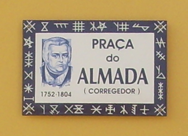 Praça do Almada street sign